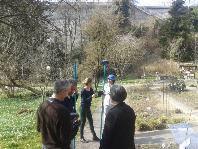 SmaRTK GNSS RTK Receiver being used to survey the forest population in Switzerland.